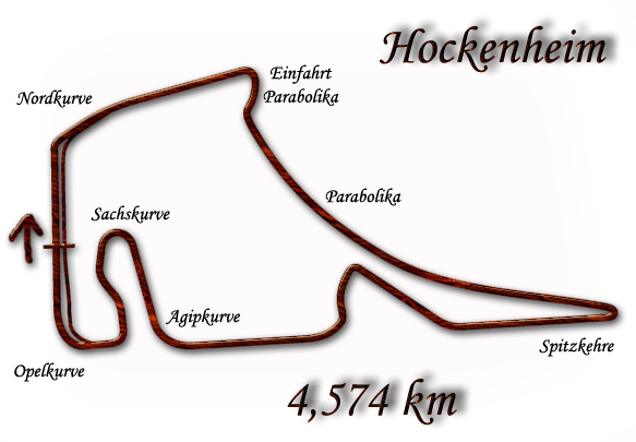 Diagram of the Hockenheimring Circuit after modified in 2002 and used for German Grand Prix from 2002 to 2006.